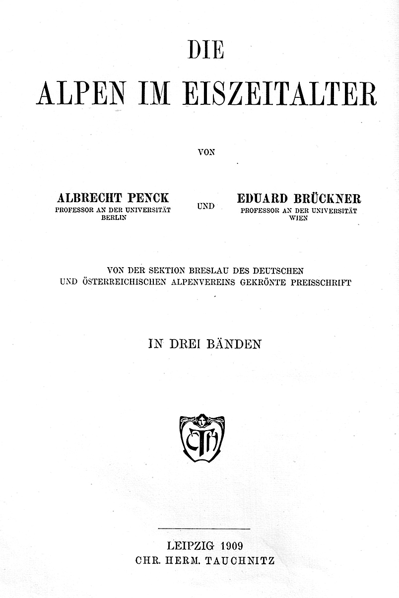 Title page of the first volume of the authors Penck and Bruckner "Die Alpen in Eiszeitalter"